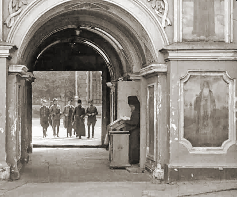 Officers of Polish Army visiting Kiev Pechersk Lavra, May 1920